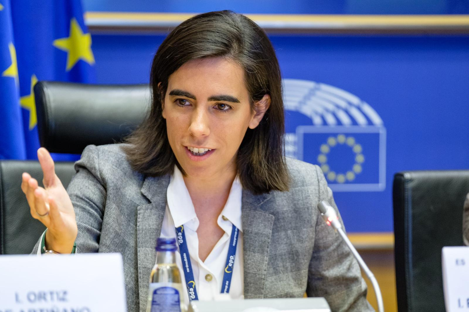 Isabel Benjumea Parlamento Europeo